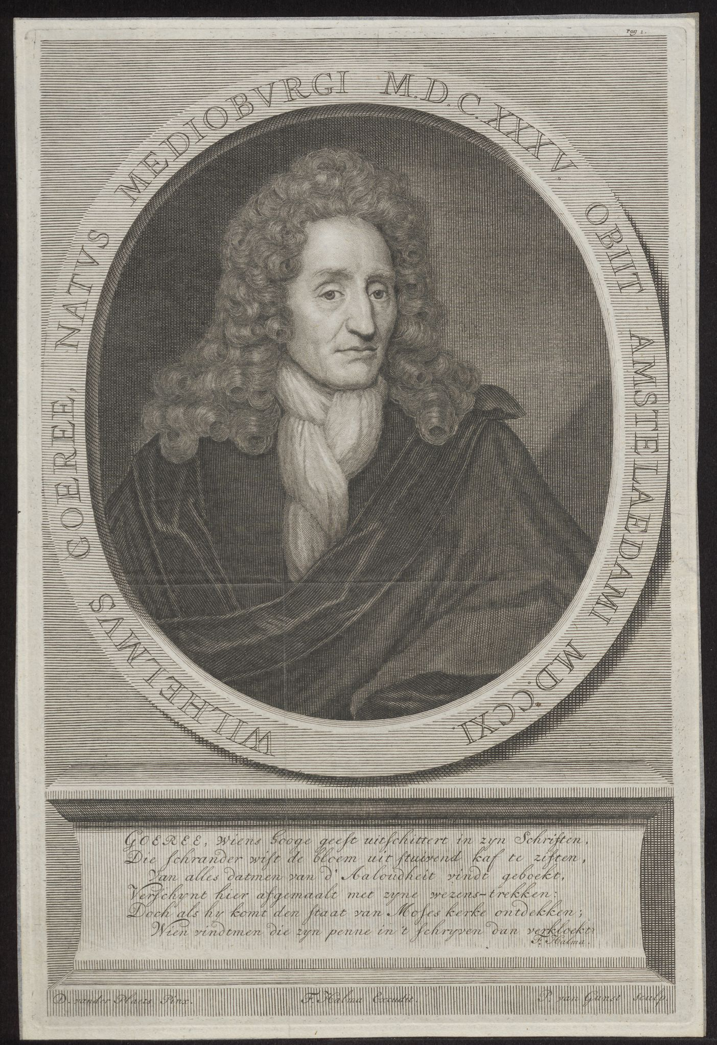 Portrait of Willem Goeree, with a poem by François Halma.